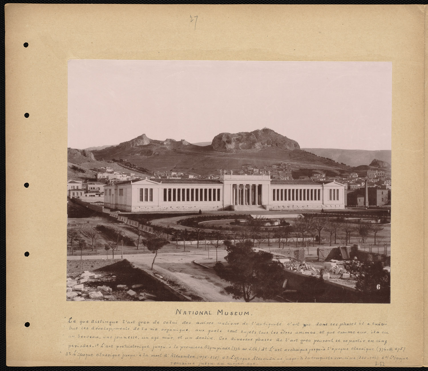 BPLDC no.: 08_04_000435 Page Title: National Museum Collection: Tupper Scrapbooks Collection Album: Volume 3: Athens. Call no.: 4098B.104 v3 (p. 52) Creator: Tupper, William Vaughn Genre: Scrapbooks; Albumen prints Extent: 1 photographic print mounted on page : albumen ; page 33 x 39 cm. Description: Scrapbook page contains one photograph of the National Museum in Athens, annotated with descriptive information about the museum's holdings. Transcription: "Le que distingue l'art grec de celui des autres nations de l'antiquite c'est que dans ses phases il a suivi tous les développments de la vie organique, aux quels sont sujets tous les êtres animes, et que comme eux, il a eu um berceau, une jeunesse, un aqe mûr, et un declin. Ces diverses phases de l'art grec peuvent se re partir en cinq periodes. 10 L'art prehistorique jusqu-à la premiere Olympiade (776 av J.Ch) 20 L'art archaique jusqu-à l'epoque classique (776-475) 30 L'epoque classique jusqu-à la mort d'Alexandre. (475-325) 40 L'epoque Alexandrine jusqu-à la conquete romaine (325-146) 50 L'epoque romaine jusqu-au moyen age." Notes: Page description supplied by cataloger, derived from captions and/or annotated information.; Caption on image: 6 BPL Department: Print Department Rights: No known restrictions. Flickr data on 2011-08-26: Camera: Sinar AG Sinarback 54 FW, Sinar m License: CC BY 2.0 User: Boston Public Library Boston Public Library